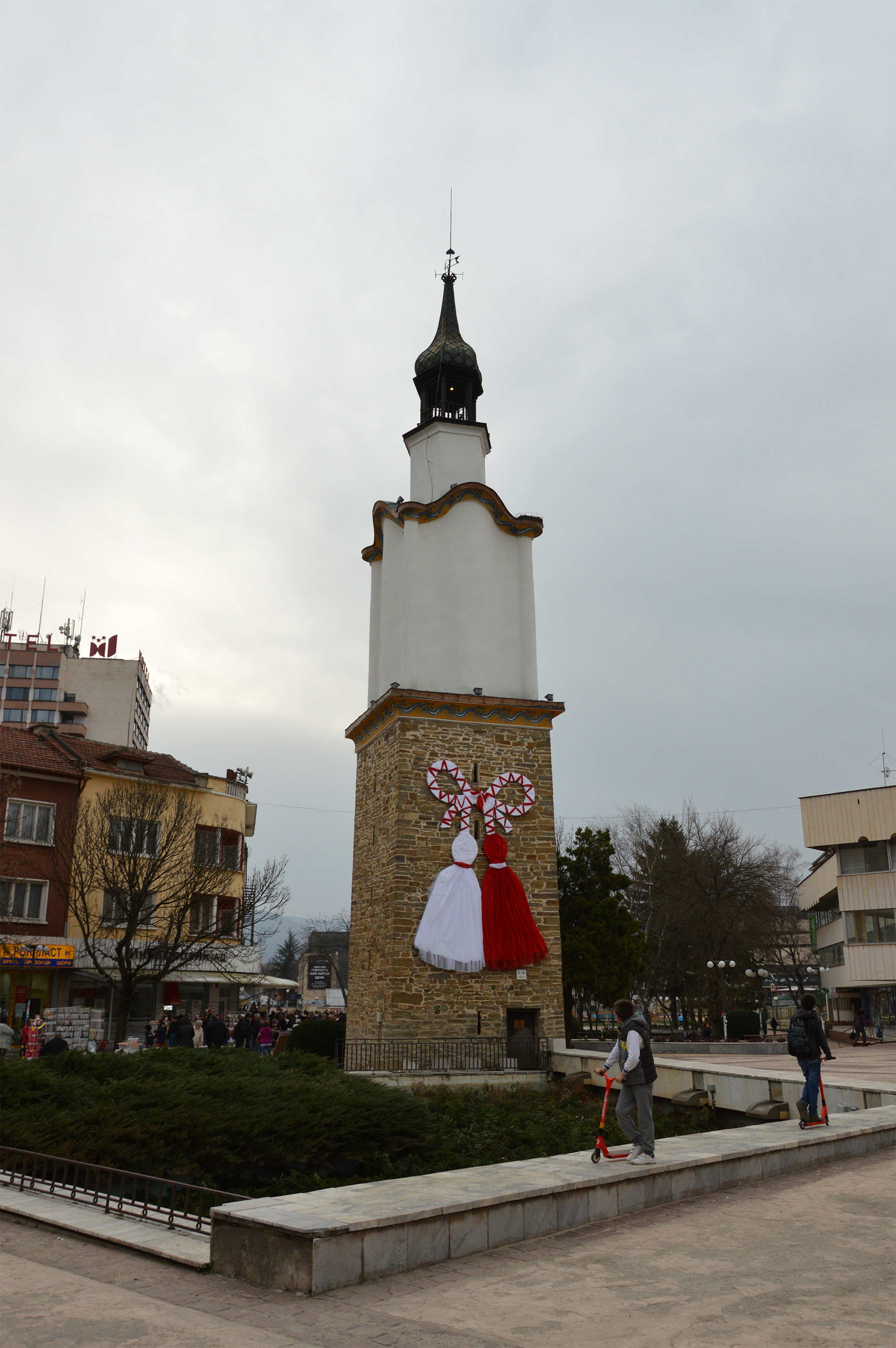 The clock tower in Botevgrad decorated with a huge martenitsas.